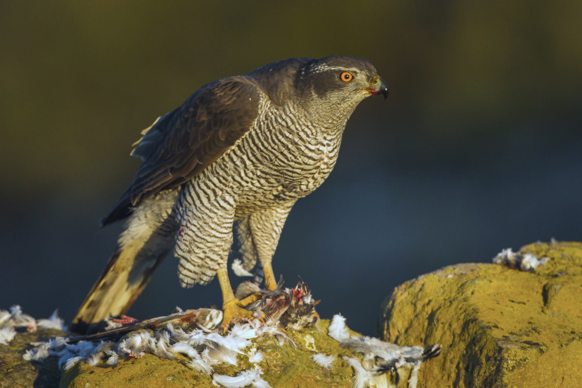 Northern Goshawk - Catalonia - Spain_S4E8845